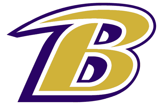 Baltimore Ravens alternate B logo.